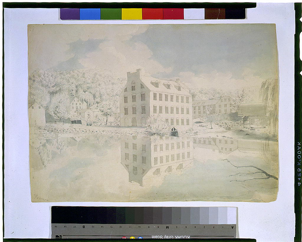 Title: Young's Mill on the Brandywine Creek / J.R. Smith. Abstract/medium: 1 drawing : watercolor, pen, pencil, blue and gray wash ; 33.9 x 47.4 cm (sheet)